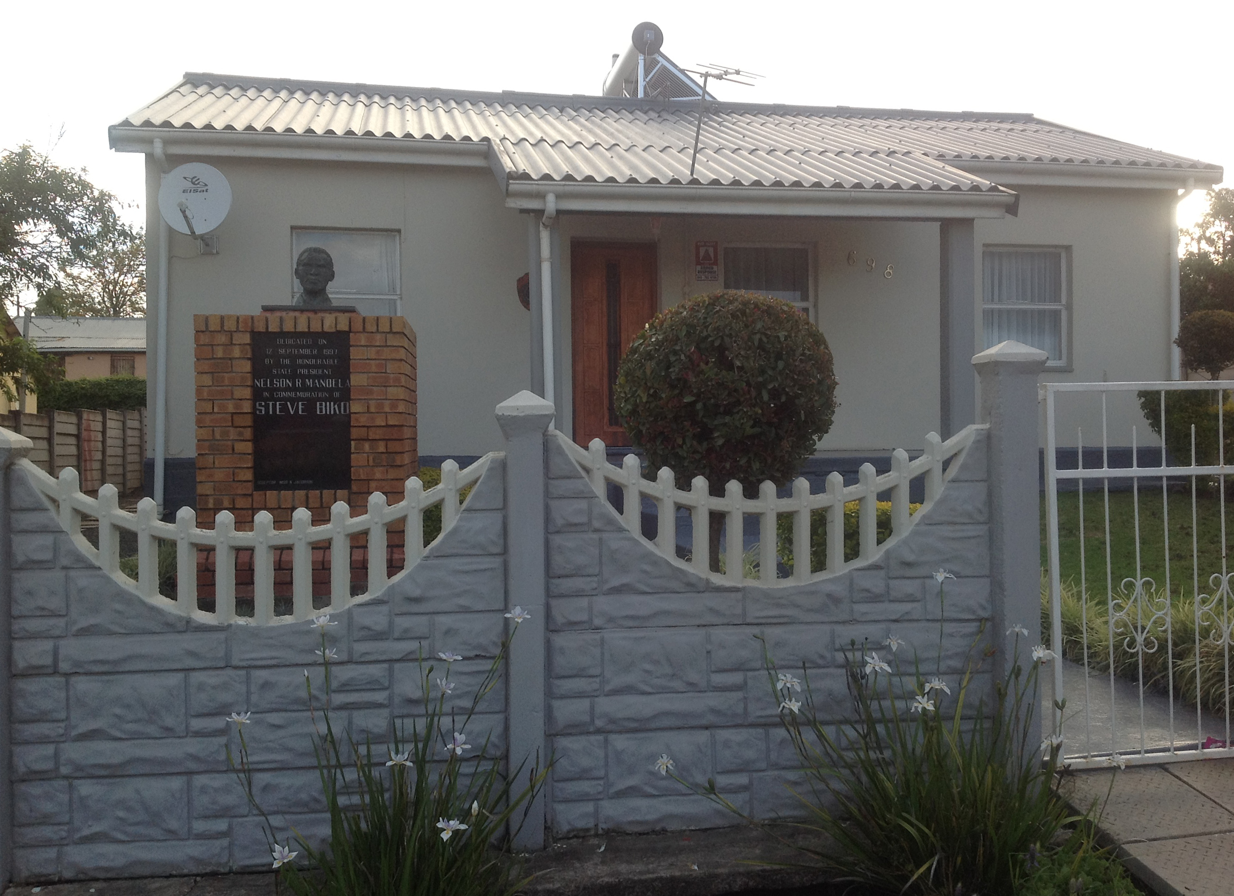 Steve Biko's House, 698 Ngxata Street, Ginsberg, King William's Town This media shows a South African Protected Site with SAHRA file reference 9/2/050/0038.